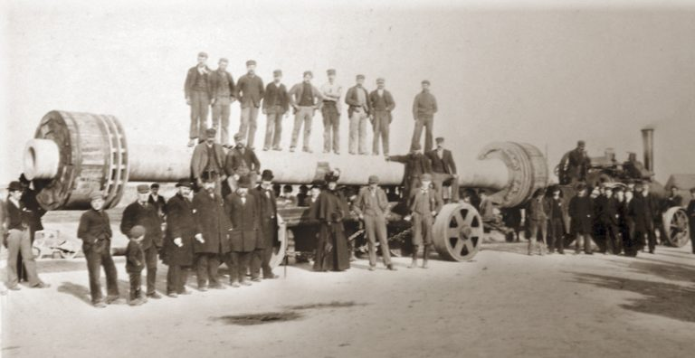 Construction of the Great Wheel in Blackpool